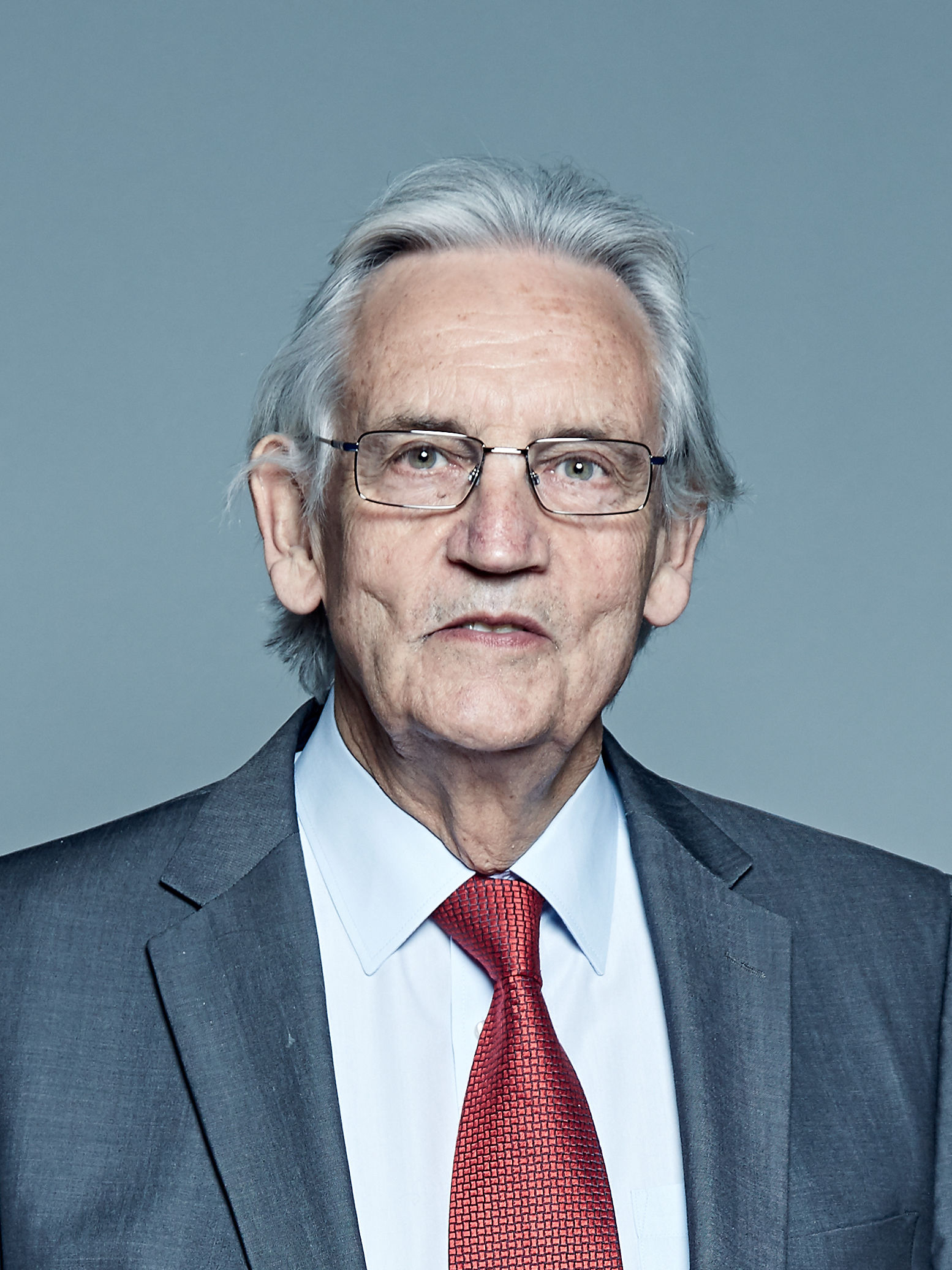 Official portrait of Lord Grocott